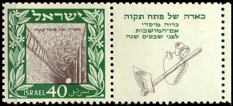 "Petah Tiqwa" Stamp. Issued on the occasion of Petah Tiqwa's 70th year. Inscription: "Well of Petah Tiqwa". Inscription on tab: "Well of Petah Tiqwa, Dug by the fouders of 'Mother of the Colonies' 70 years ago".